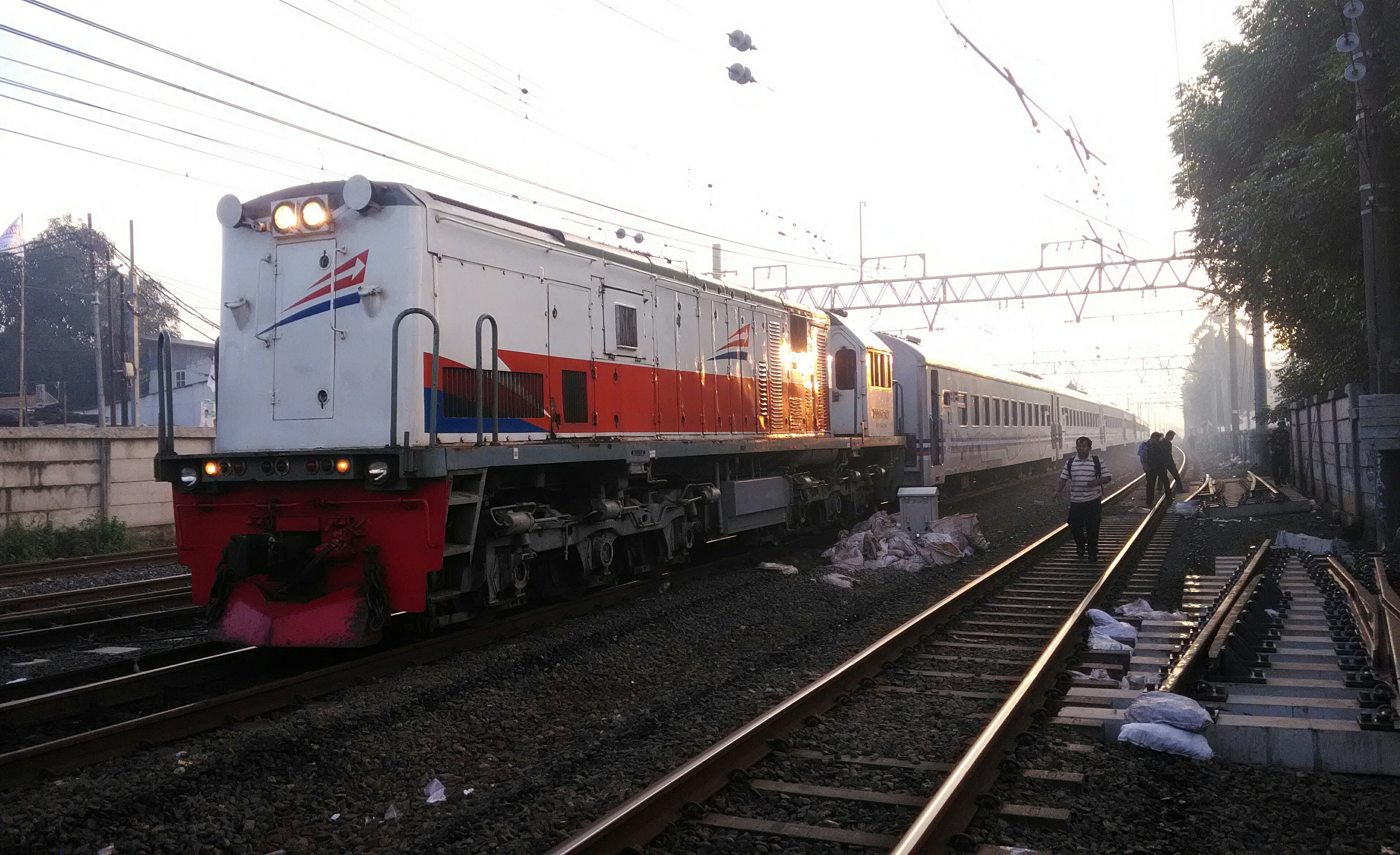 Jatiluhur Ekspres Train at Jatinegara Station Entrance Sign in the morning